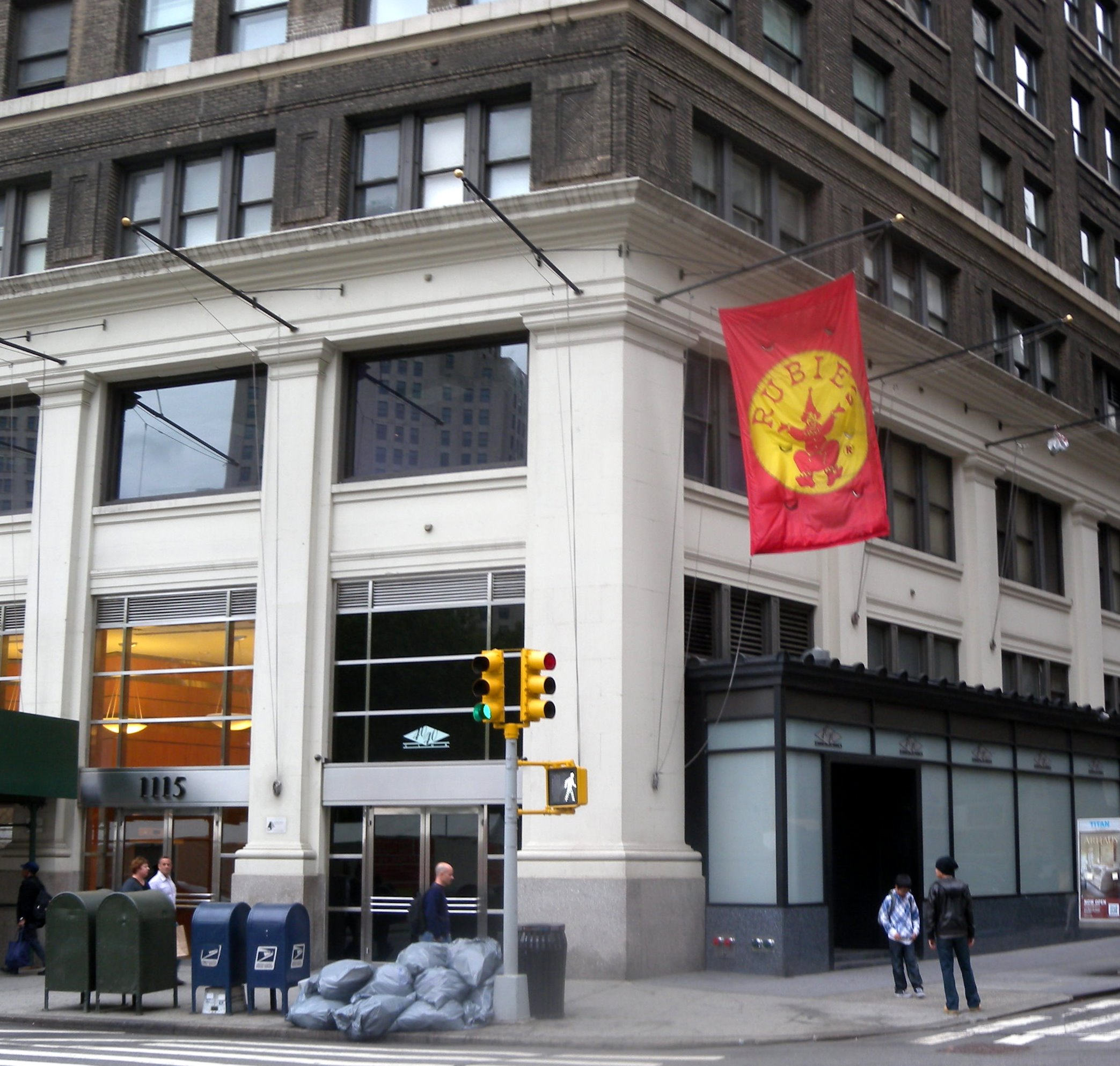 Looking west at Rubie's Costume shop at 1115 Broadway (the banner is on the 25th Street side of the building) on a cloudy afternoon.